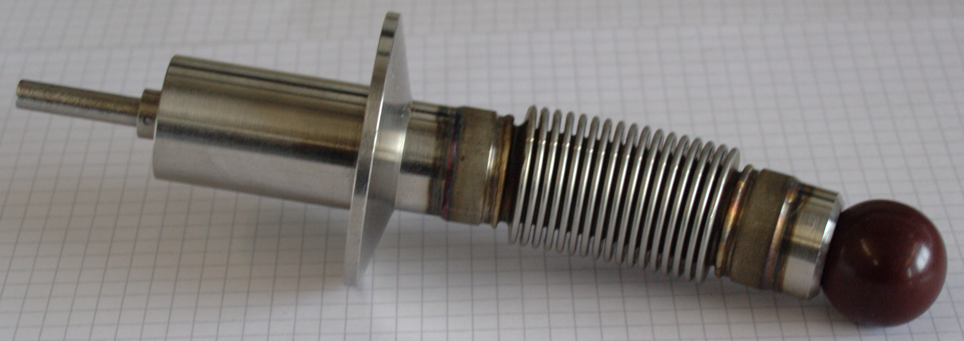 ISO-KF-Flange UHV Rotary-motion bellow-seal